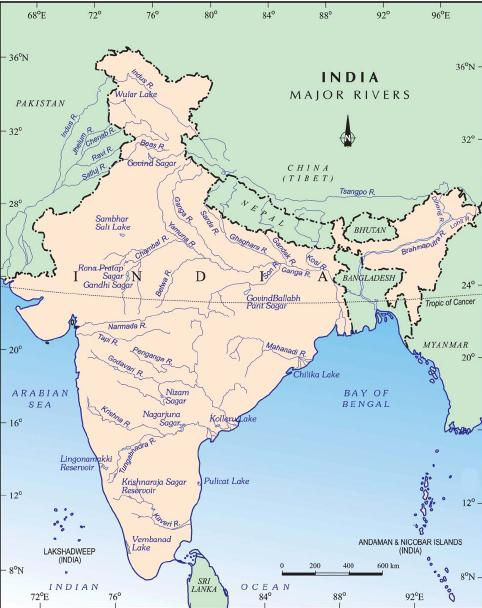 Major Rivers in India